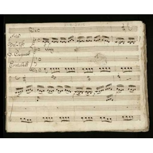 Pasquale Errichelli (1730–1775?): Aria